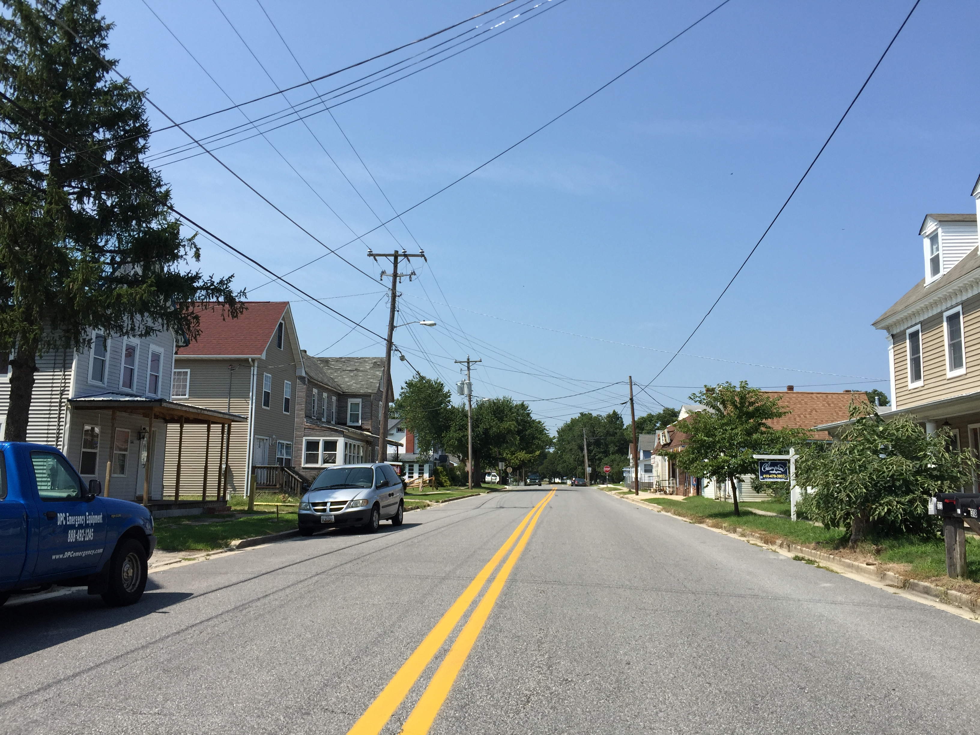 View west along Maryland State Route 821 (Main Street) at Railroad Avenue in Marydel, Caroline County, Maryland